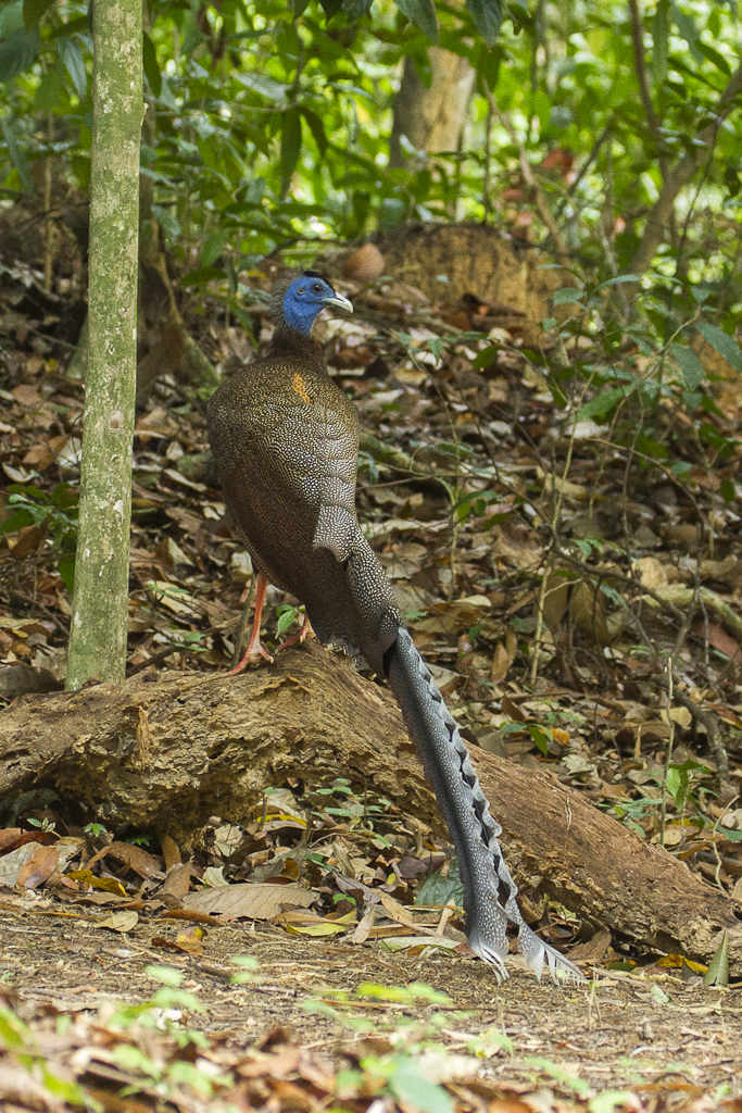 Great Argus Argusianus argus, Khao Sok, Thailand.